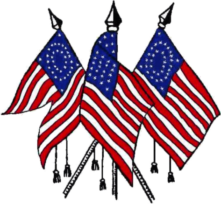 U.S. flags in ACW.